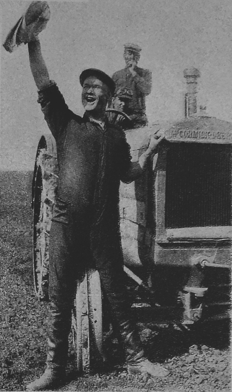 The choice of Soviet industrial planners was McCormick-Deering 15-30 (International Harvester), locally produced as KhTZ 15-30 in Kharkiv and STZ 15-30 in Stalingrad. The technology transfer, in forms of import and local productions of tractors, was technological backbone of the collectivization and industrialization programs during the first five-year plans. According to Antony C. Sutton “…in agriculture the transfer of Western technology was not notably successful. The hostility of the peasant, the collectivization of agriculture, the undue attachment to the imaginary massive economies of scale, and the misunderstanding of the factors making for success in Western large-scale agriculture made for ineffective transfer.”